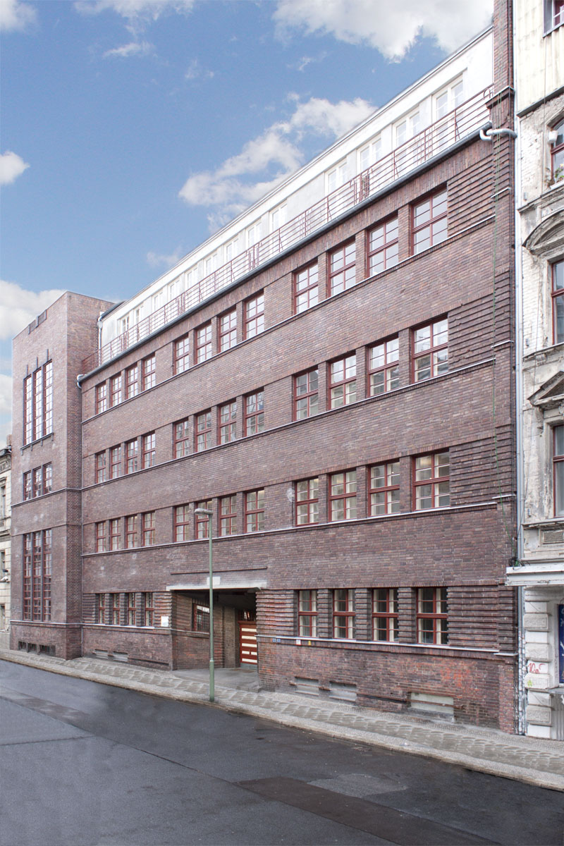 The building is the home of the CWC GALLERY and the Museum THE KENNEDYS.